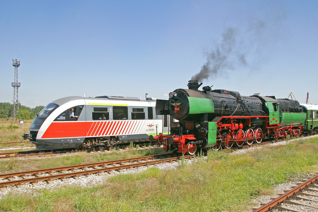 The newest and the oldest bulgarian trains at a frame.